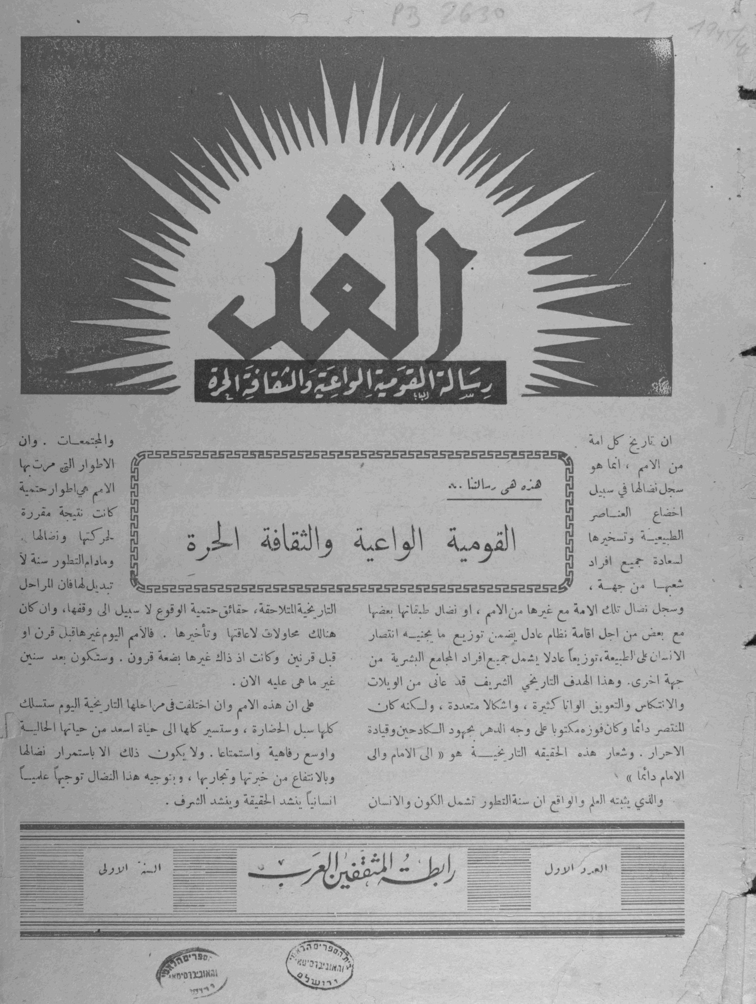 Palestinian magazine